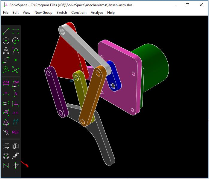 Workspace of free open source software SolveSpace